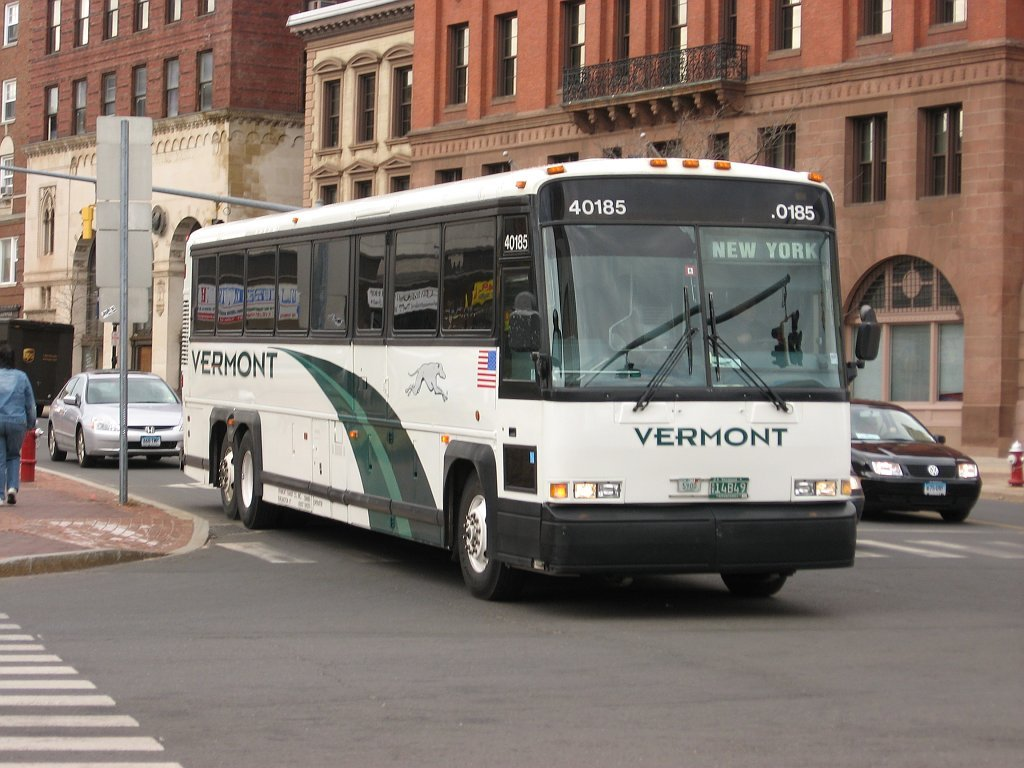 Vermont Transit (a Greyhound company) #40185 leaves New Britain, Connecticut, on its way to New York City.